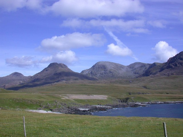 Harris, Isle of Rum. View towards Rum Cullin from Harris Mausoleum. (To see the positions of the mountains Hallival, Trollabhal, Ainshval, Leac a' Chaistaeil and Ruinsival, place your mouse cursor over the photo).